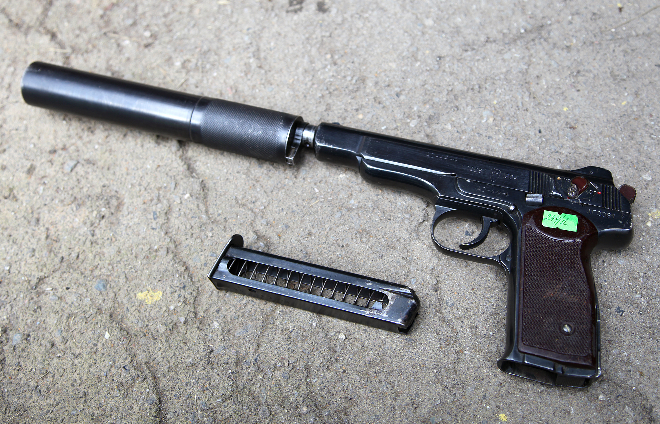 9mm APB and 7,62mm PSS silent pistols